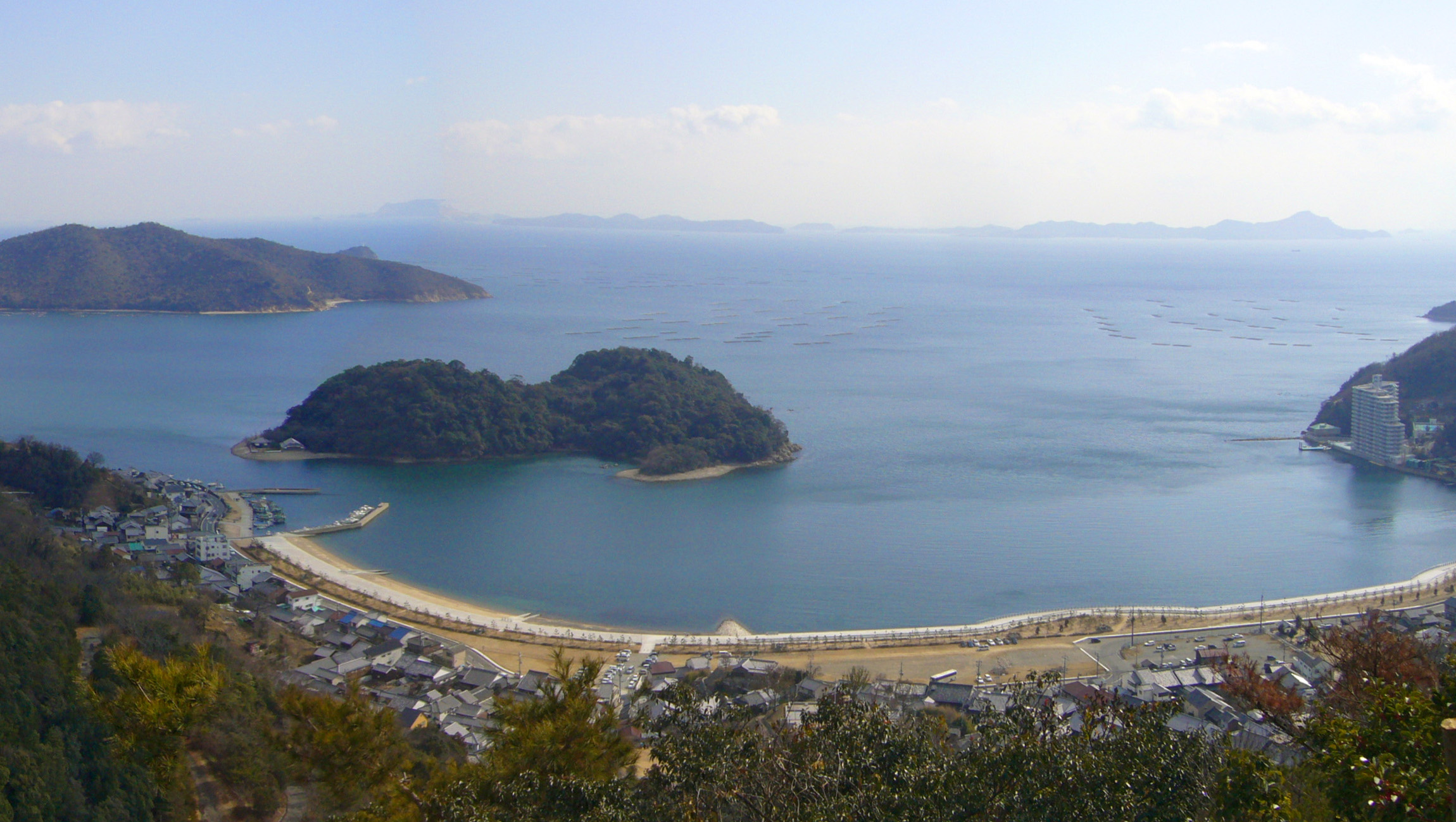 Ikishima and Sakoshi Harbor view from Chausuyama Castle in Ako, Hyogo prefecture, Japan